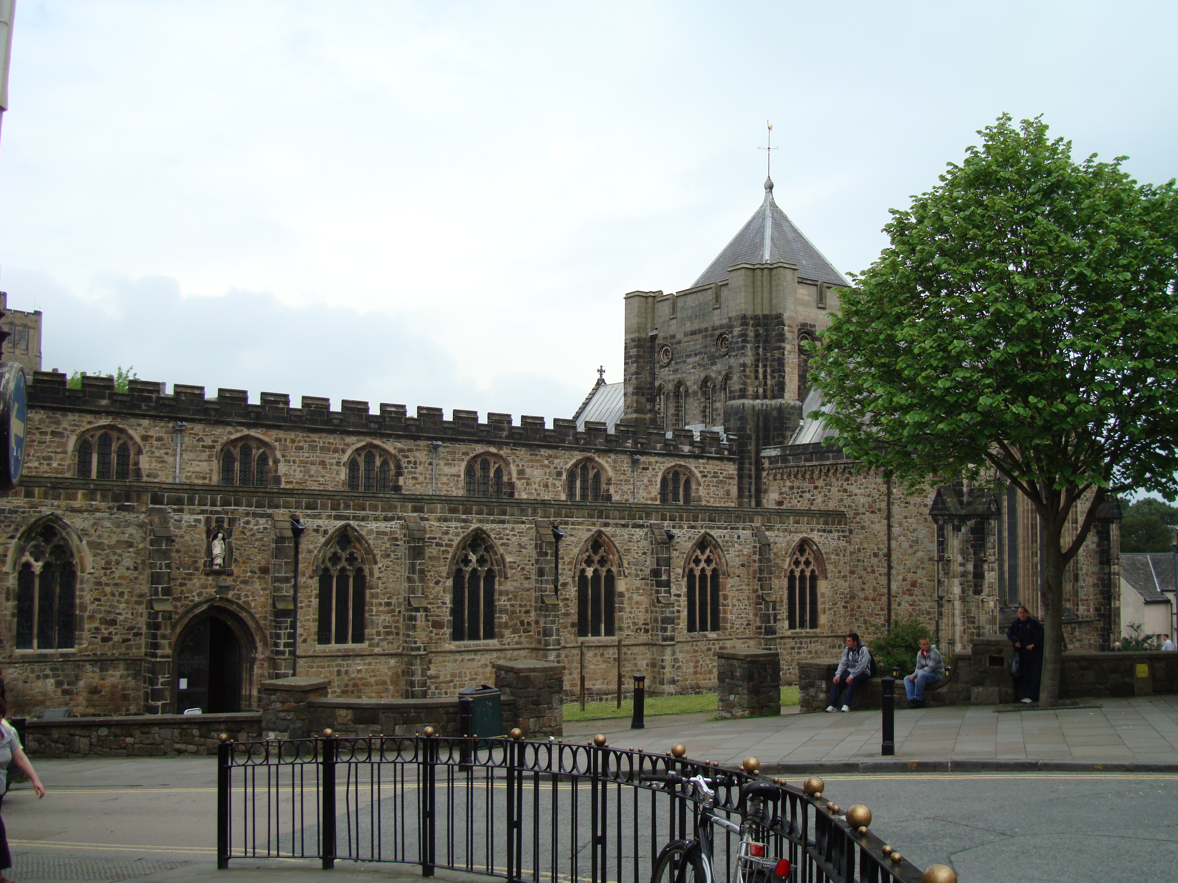 Photograph of Bangor Cathedral, Wales - Nave & Central Tower